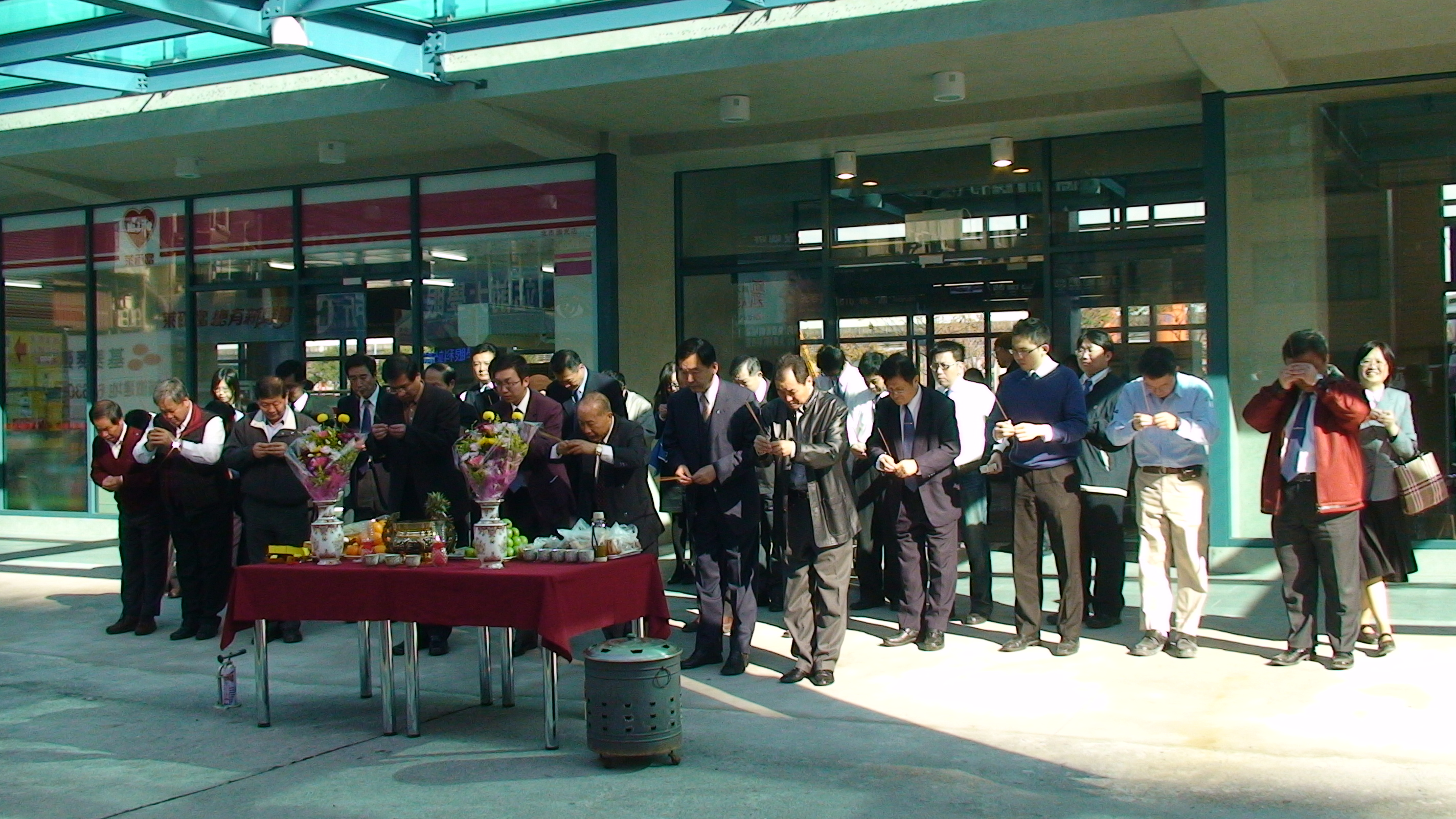 Opening Ceremony of Taipei West Bus Station Terminal A 中文（台灣）: 臺北西站A棟啟用儀式